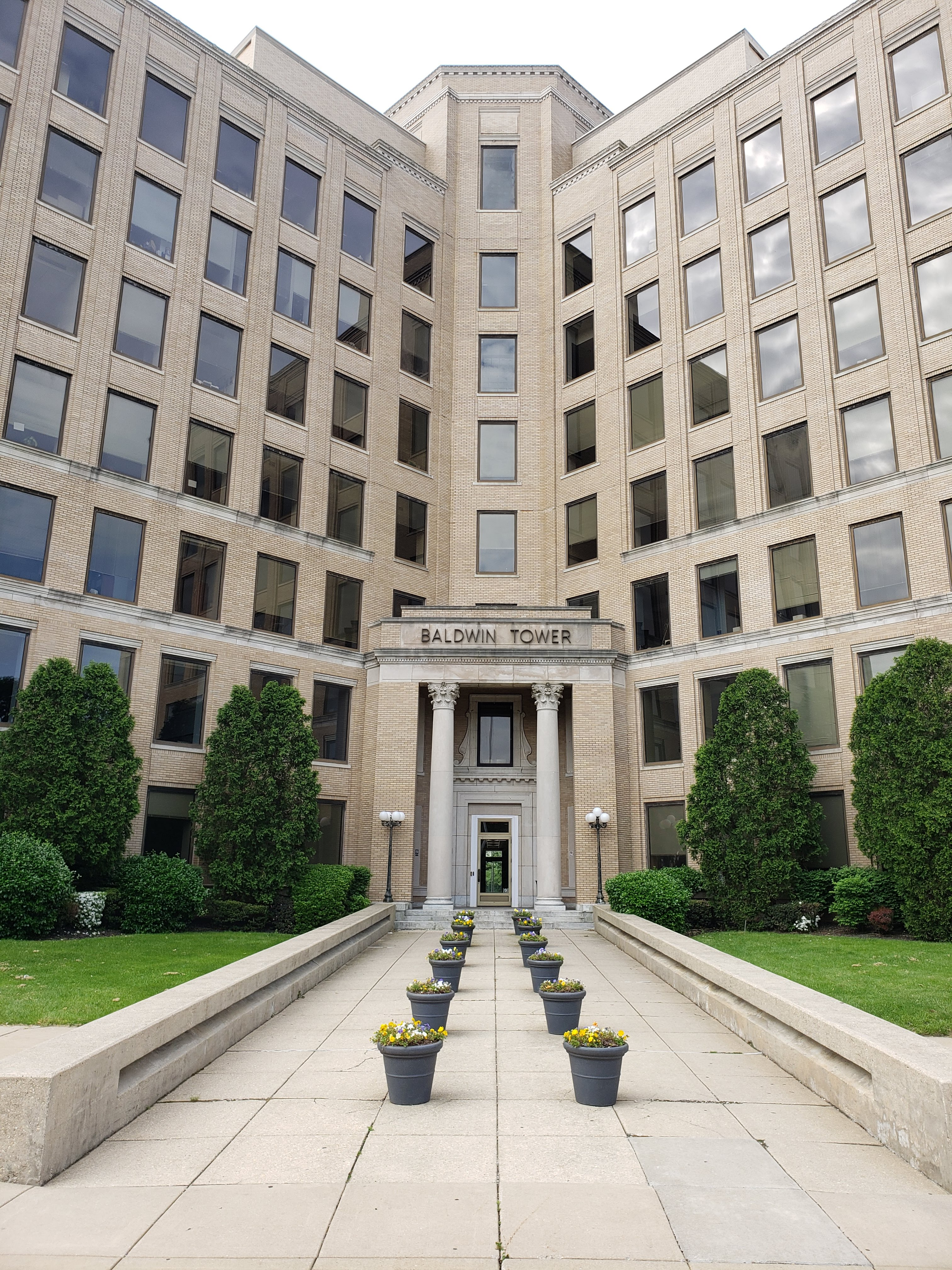 Baldwin Tower in Eddystone, Pennsylvania. Former headquarters of Baldwin Locomotive Works. Photo taken May 2020.